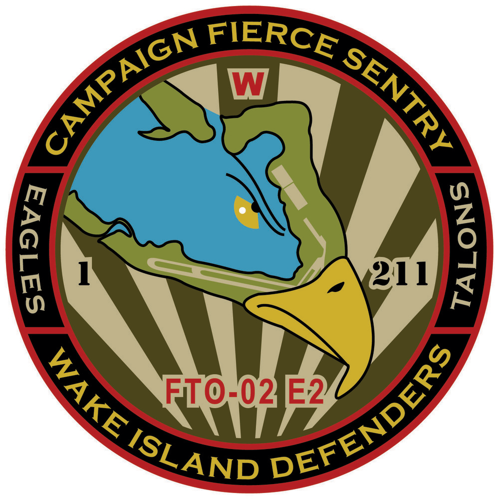 Insignia for Campaign Fierce Sentry (FTO-02 E2), a Missile Defense Agency Integrated Flight Test conducted at Wake Island in 2015.